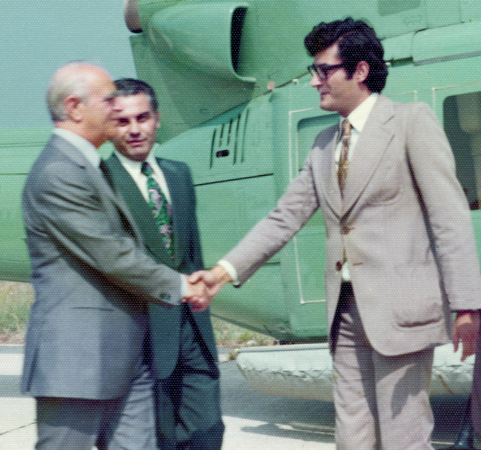 Spyros A. Katiniotis (b. 1946), mayor of Preveza welcomes Greek Prime minister Konstantinos Karamanlis at the airport of Actium.